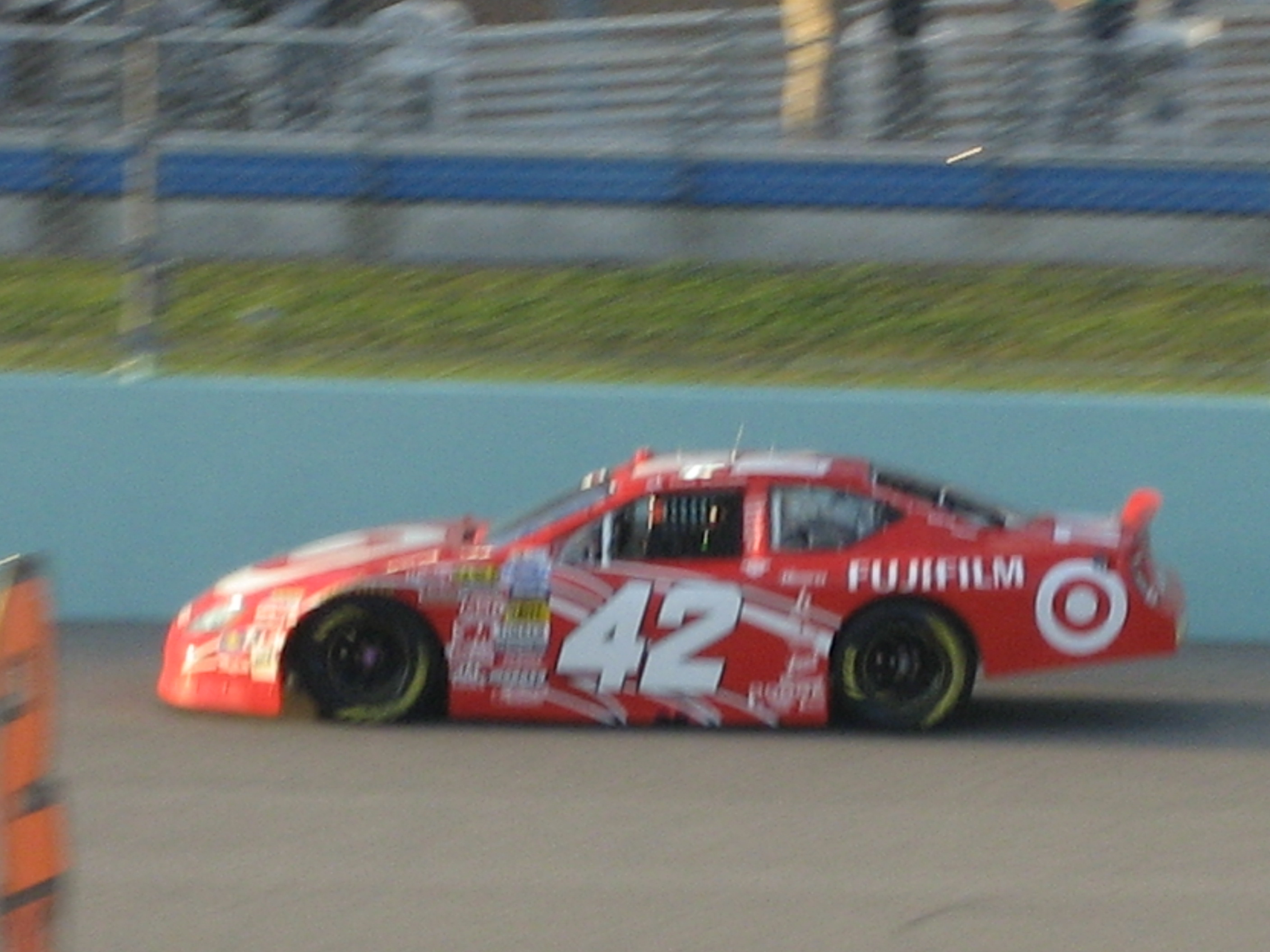 Dario Franchitti racing during the 2007 Ford 300 at the Homestead-Miami Speedway.